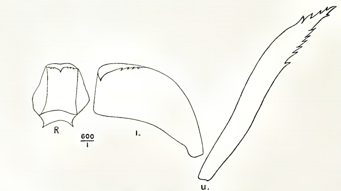 radula of Hadroconus sibogae (Schepman, 1908); family Seguenziidae